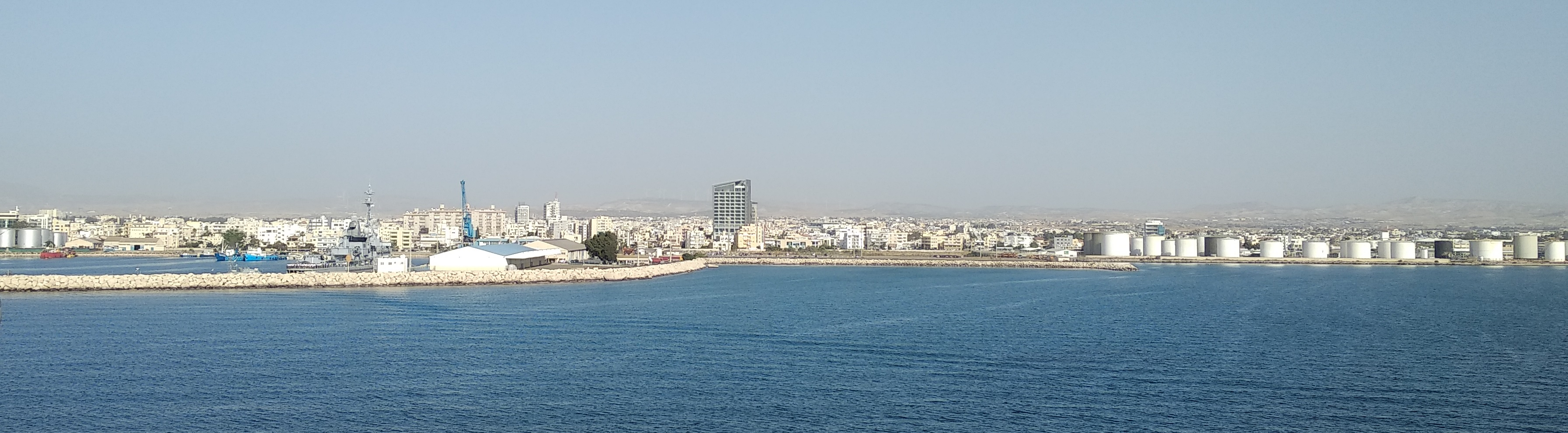 Larnaca viewed from sea